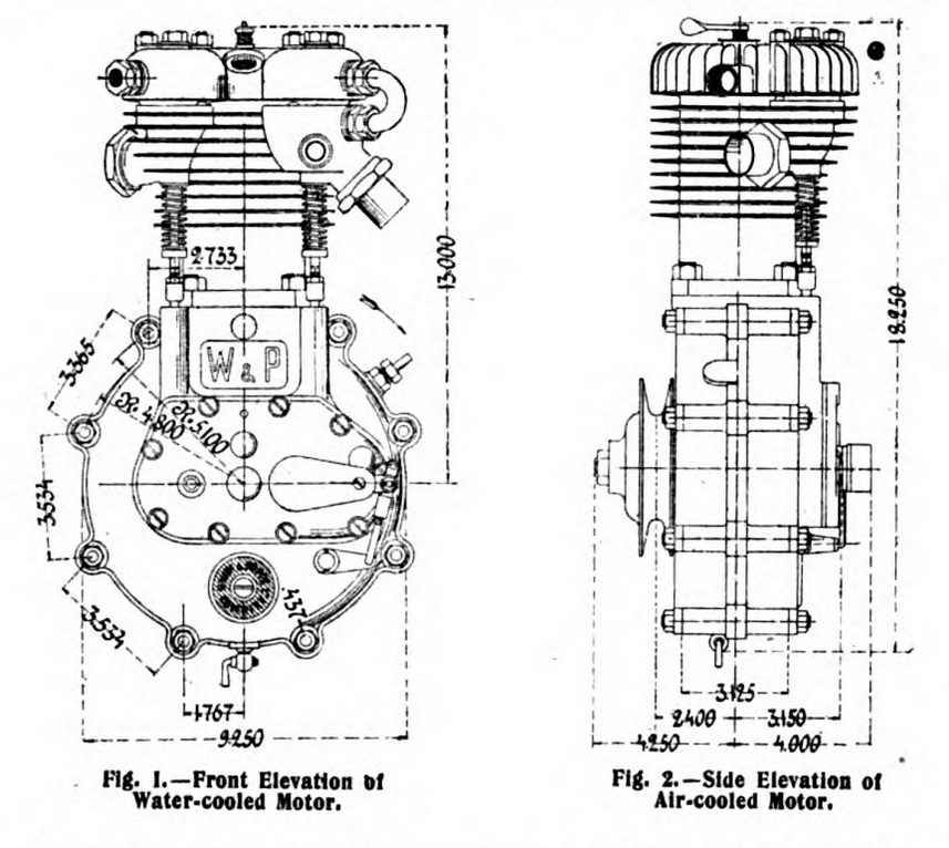 1904 White & Poppe motorcycle engine with several advanced and distinctive features. Cylinder is 80 mm x 85 mm. Compression 4¼ atmospheres or about 64 lbs psi, normal speed about 1,800 rpm. Inlet and exhaust valves are mechanically operated and interchangeable. Valve seats may be removed, there is provision for adjusting the valve stem length and timing. Bearings are hard phosphor bronze. The engine is available air-cooled or with a water-cooled head. The head is so arranged to permit the sparking plug to be placed centrally over the piston or directly over the inlet valve.